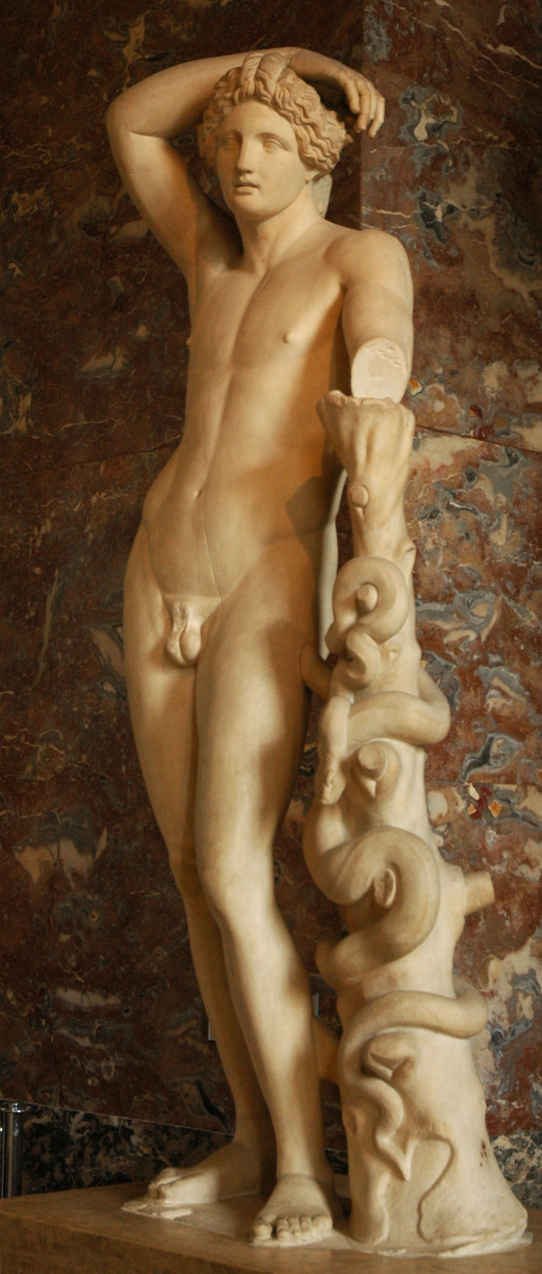 Lycian Apollo. Roman copy (Imperial era) of a Greek original.